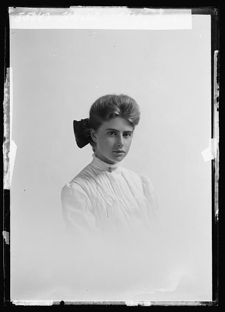 A portrait of Helen Gatch, circa 1905-06, taken at C.M.Bell's studio